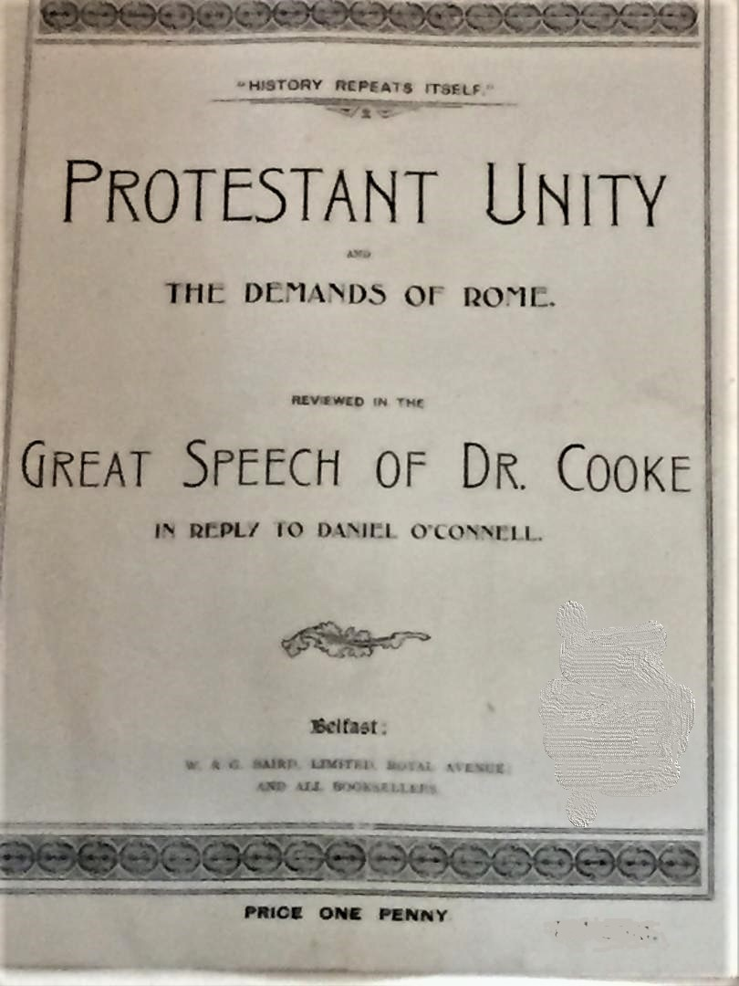 Frontispiece of "Protestant Unity," Henry Cooke's "Reply to O'Connell 1842